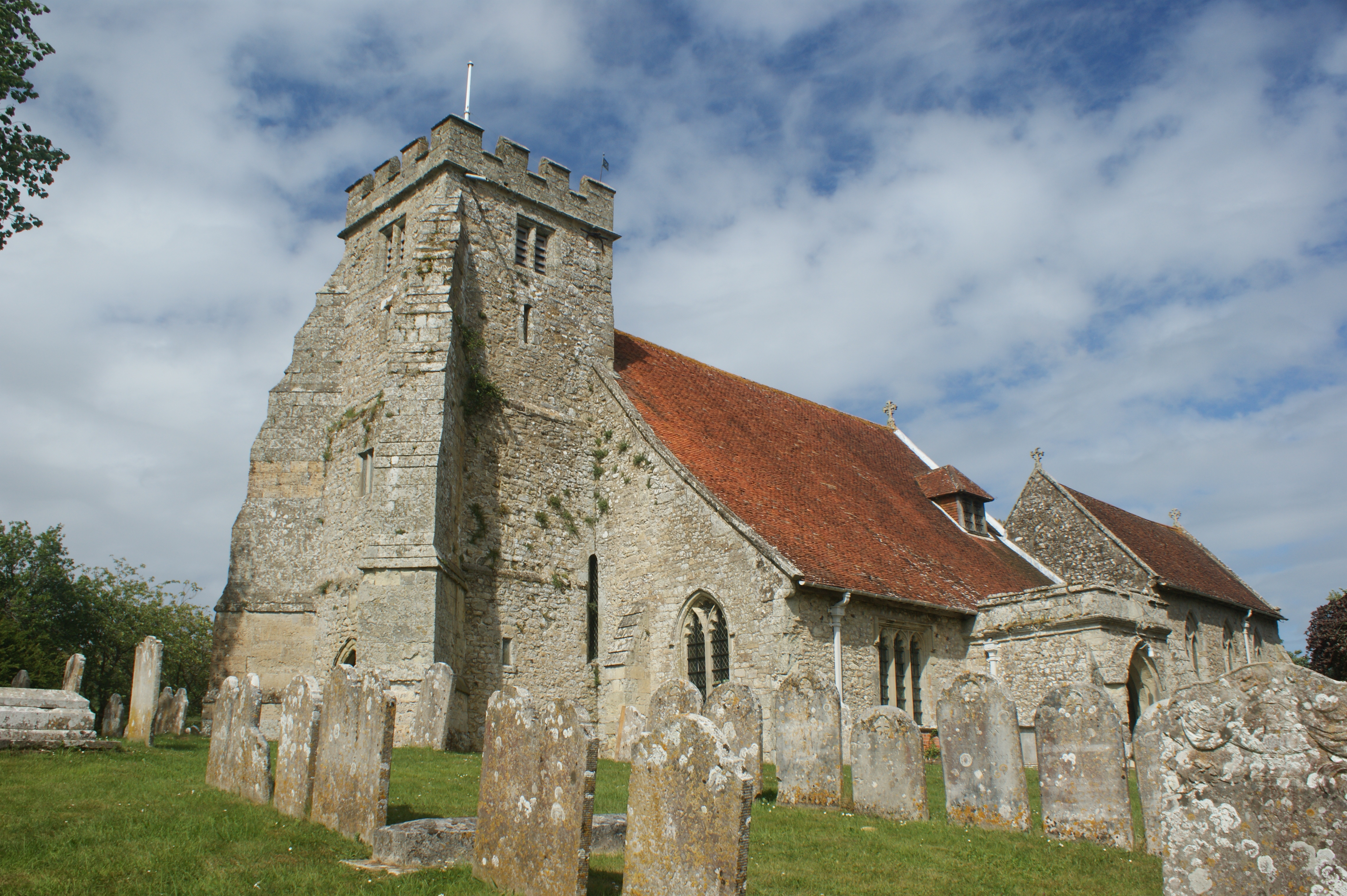 St George's parish church, Arreton, Isle of Wight, seen from the southwest